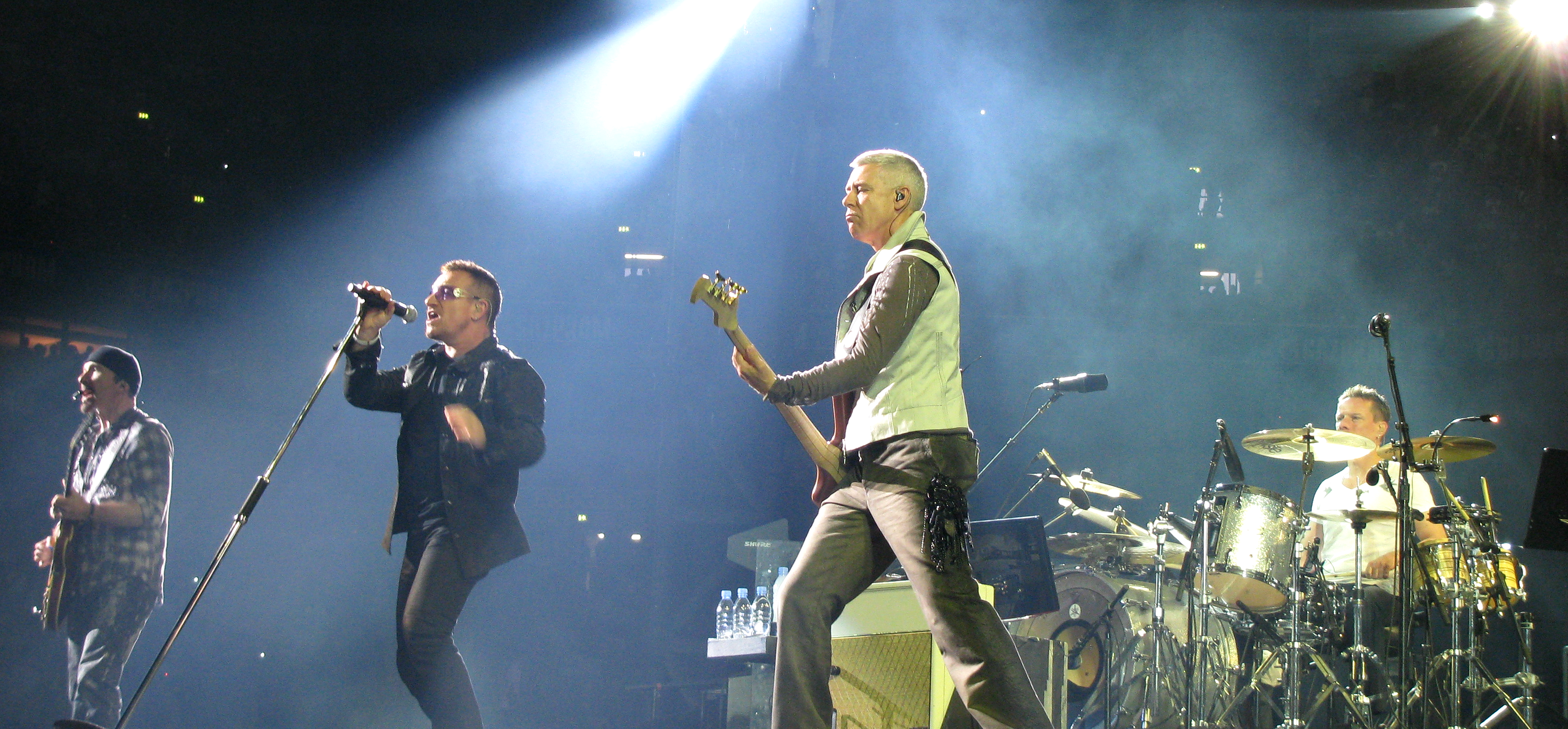 U2 performing on one of their concerts of the 360° tour in Gelsenkirchen, Germany on August 3rd 2009.